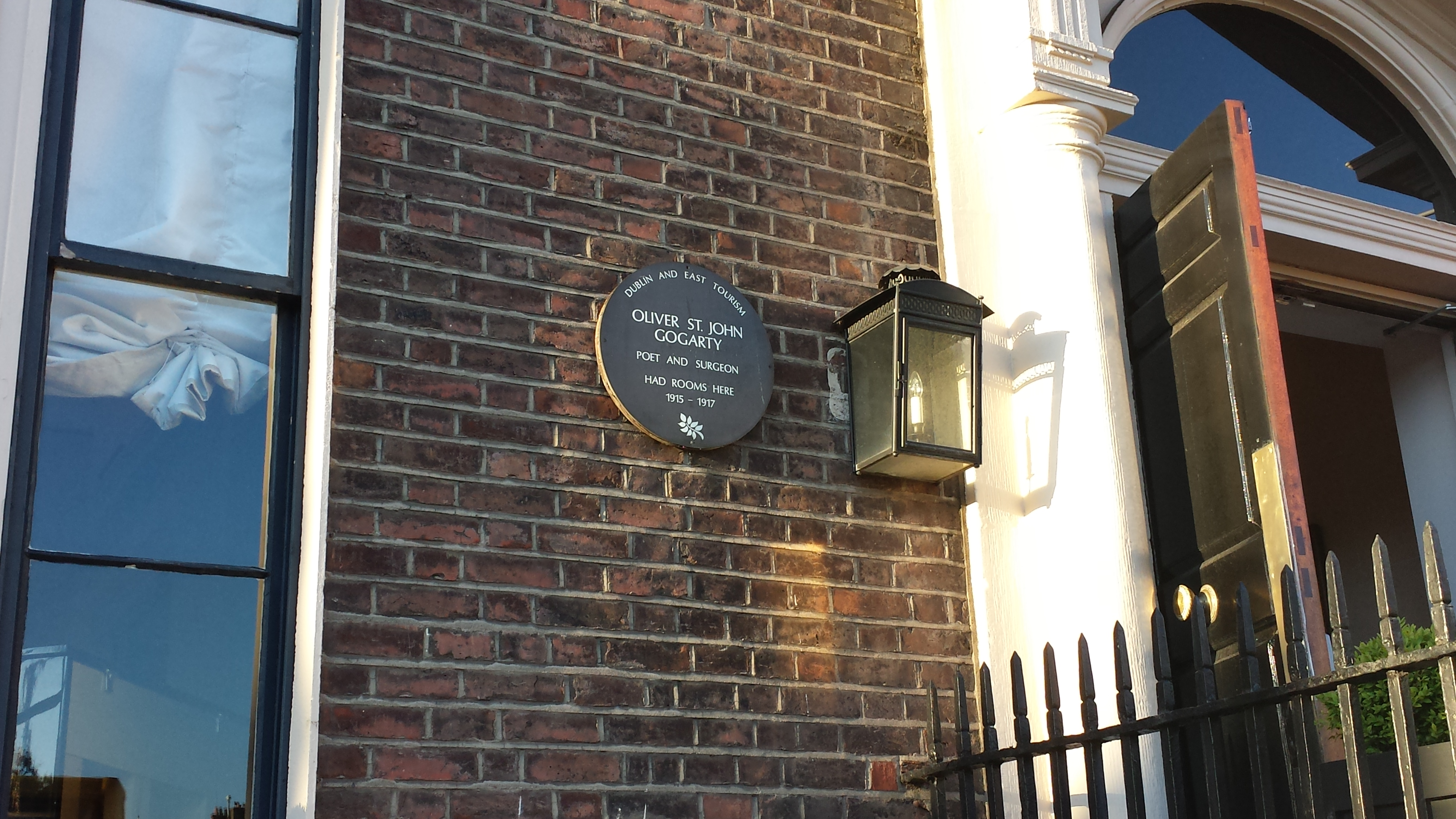 Oliver St. John Gogarty poet and surgeon had rooms here 1915-1917